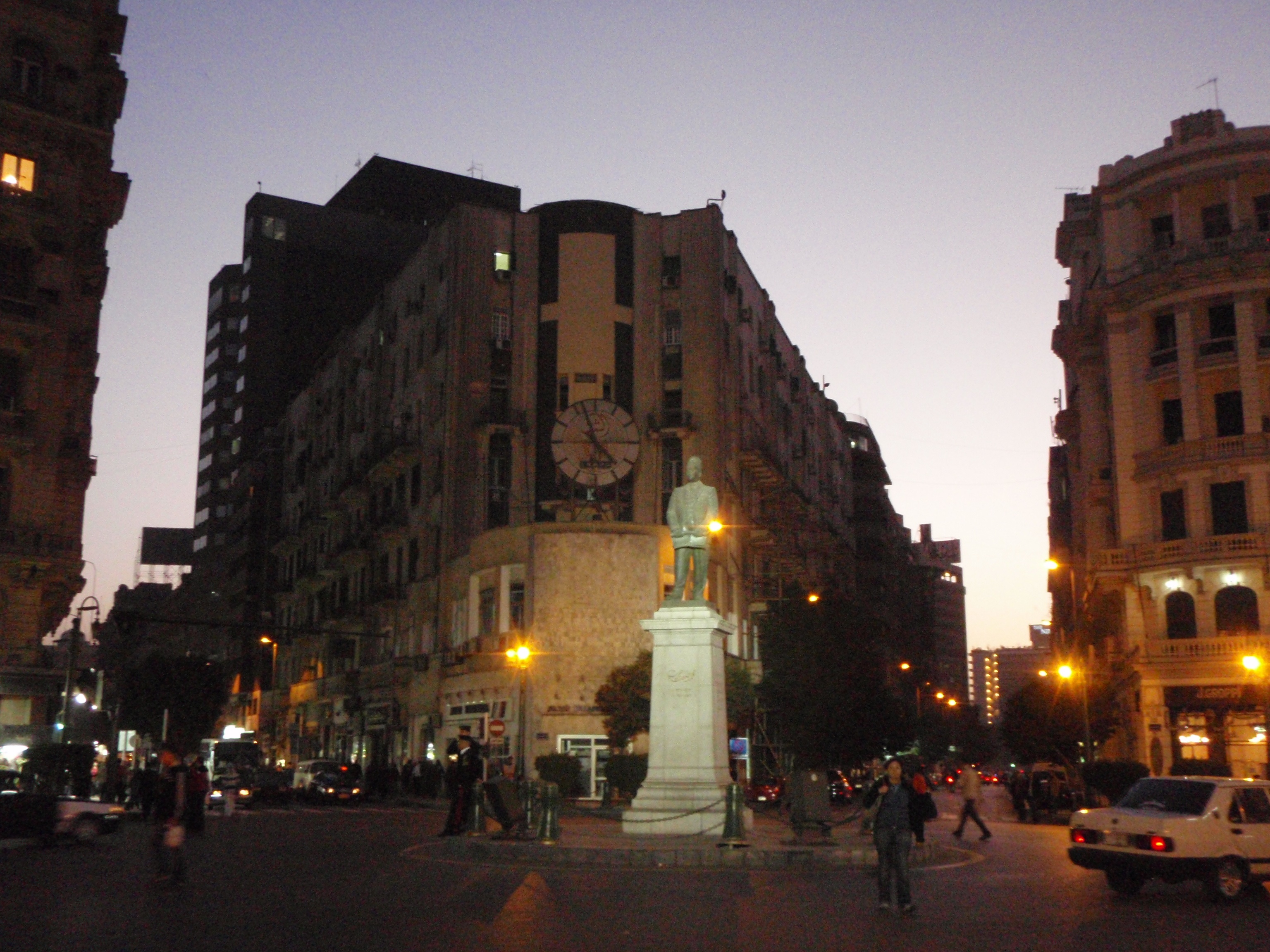 Talaat Harb Square with Talaat Harb statue, Talaat Harb Street, Downtown Cairo.